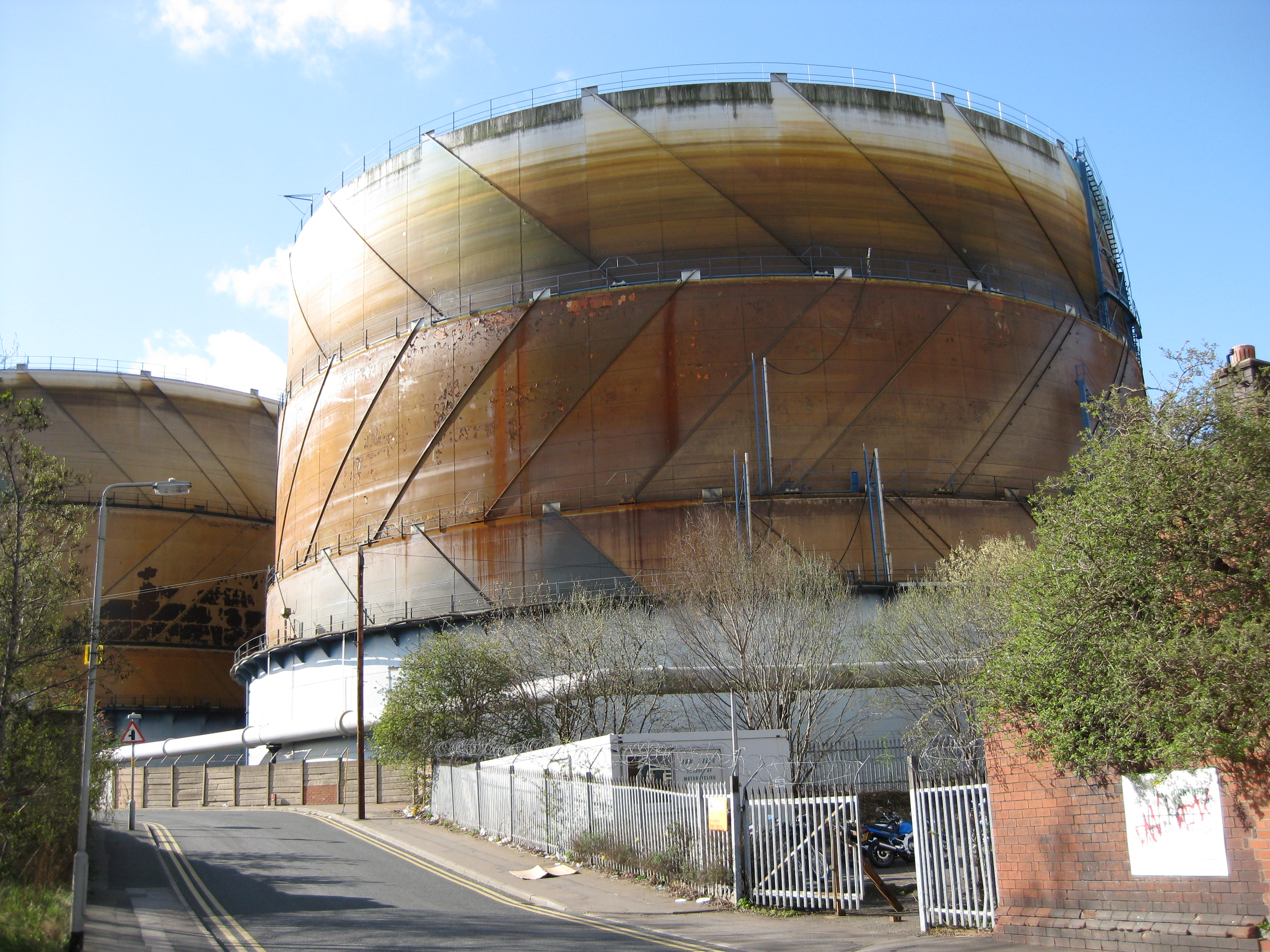 Gasometers, Meadow Lane, Hunslet, Leeds. The Closest gas holder is No.3 and the furthest No.5, these names are historic (being as the site now only has two holders), although still stand in industry references.